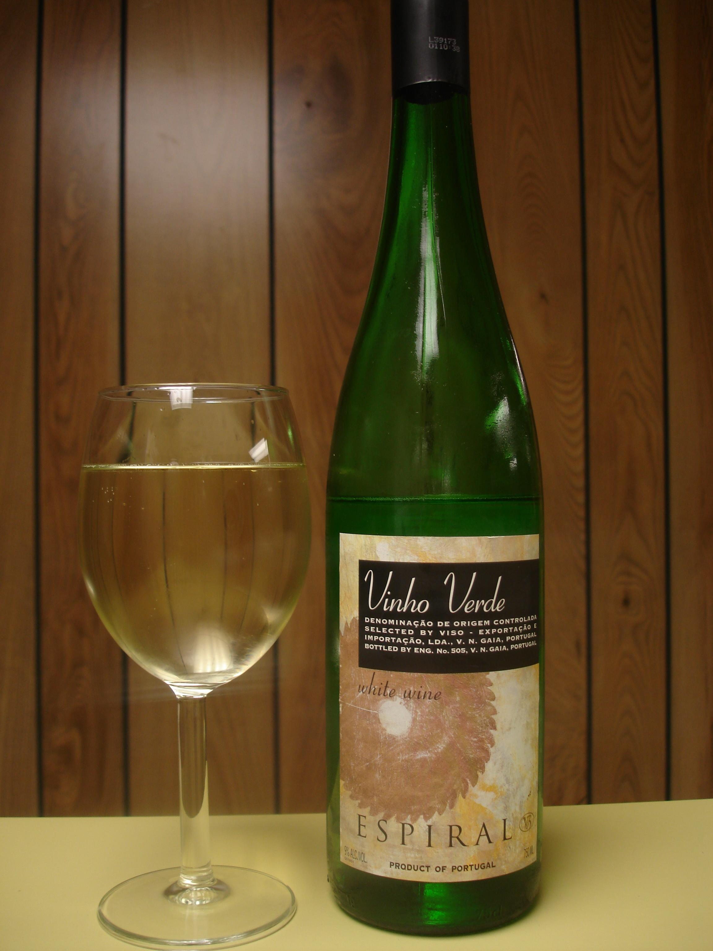 Bottle and glass of the Portuguese wine Vinho Vedre